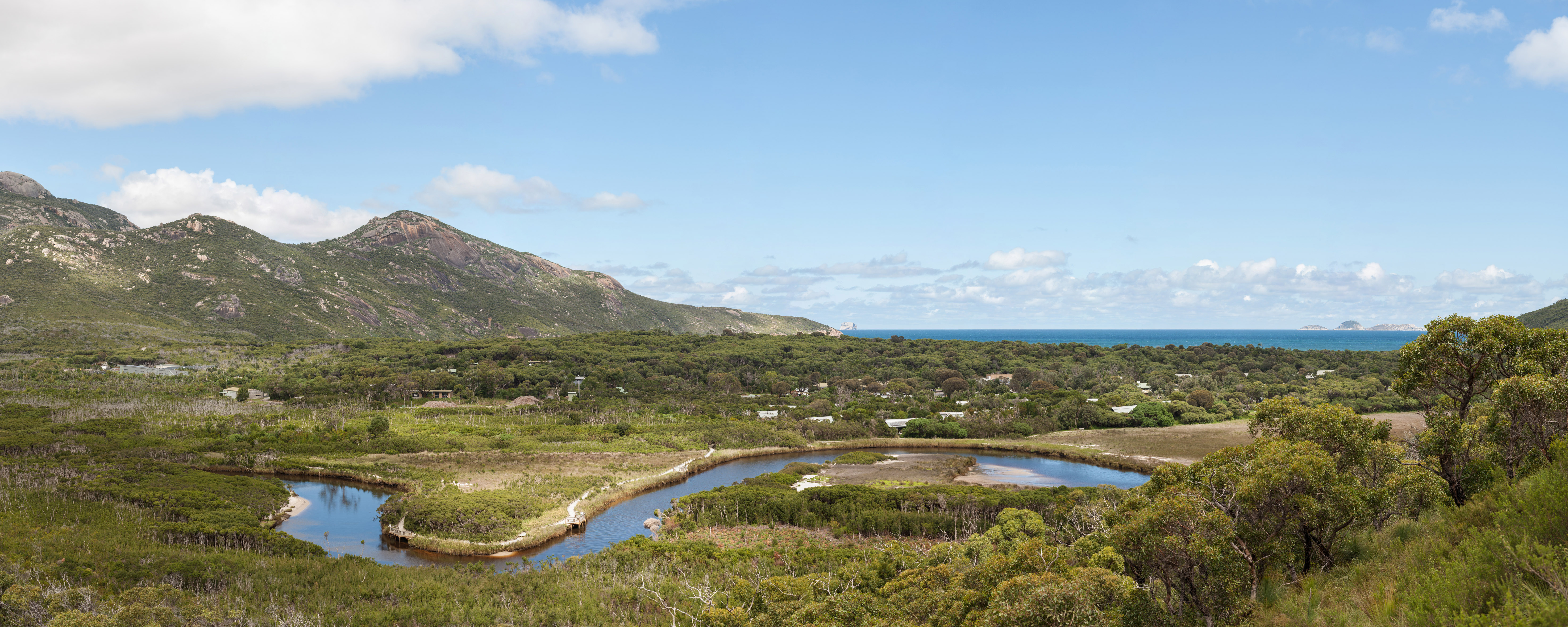 Tidal River and the camp ground village of Tidal River in the trees between the river and the ocean, as viewed looking south-west.